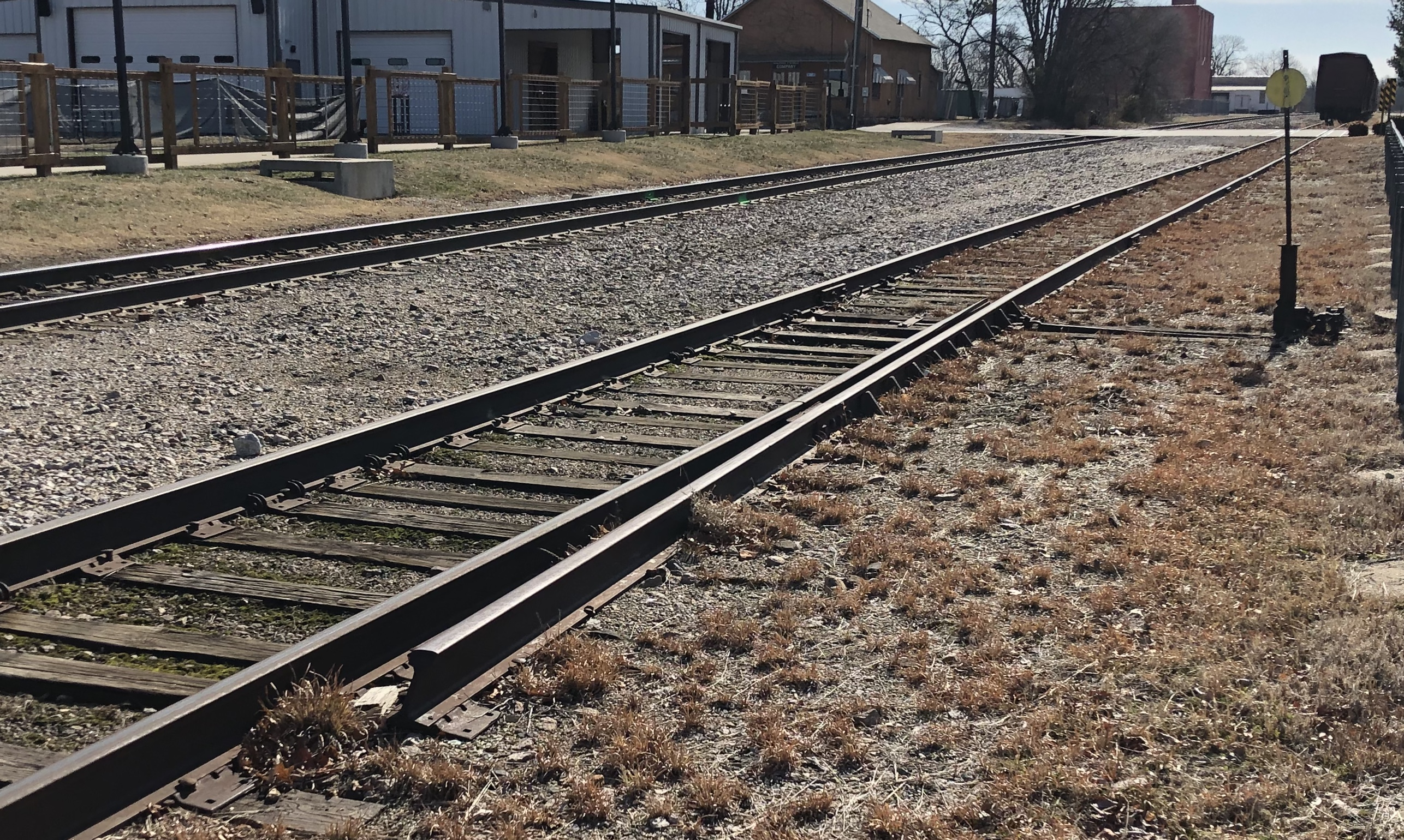 This derailed is a split-rail type, basically just a portion of a railroad "Switch". It's intended to direct cars off the rails to prevent them from entering an area they should not (in this case, a road crossing).